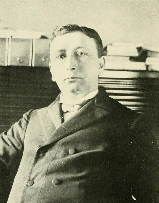 Seantor George L. Wellington